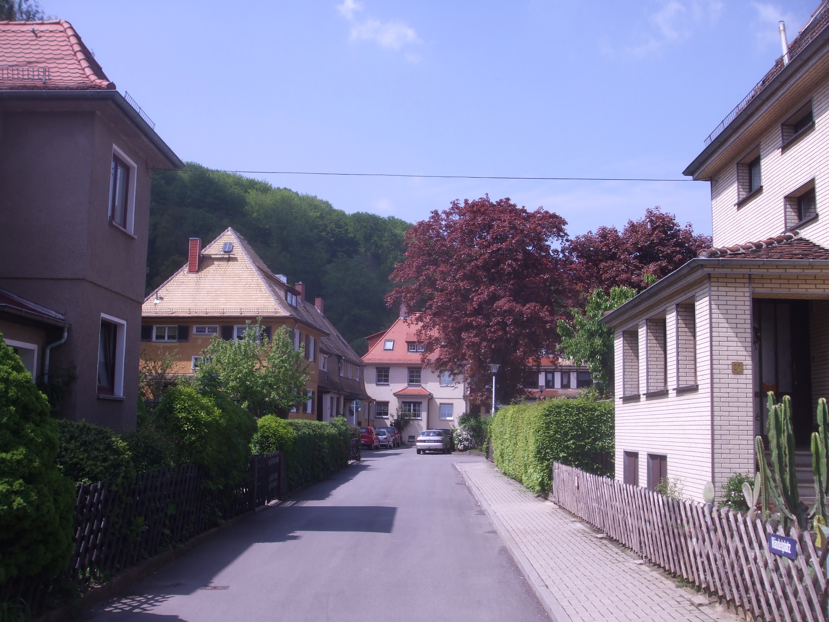 Gartenstadt Heinrichsgrün (Heinrichsgrün garden city), Gera, Germany